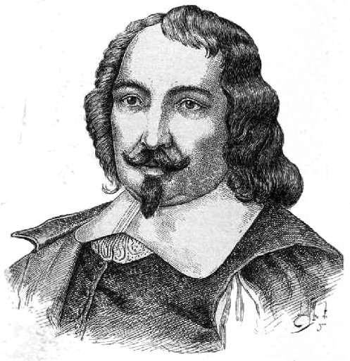 Imaginary portrait of Samuel de Champlain. This picture is pure fantasy. There is no known authentic likeness of Samuel de Champlain.